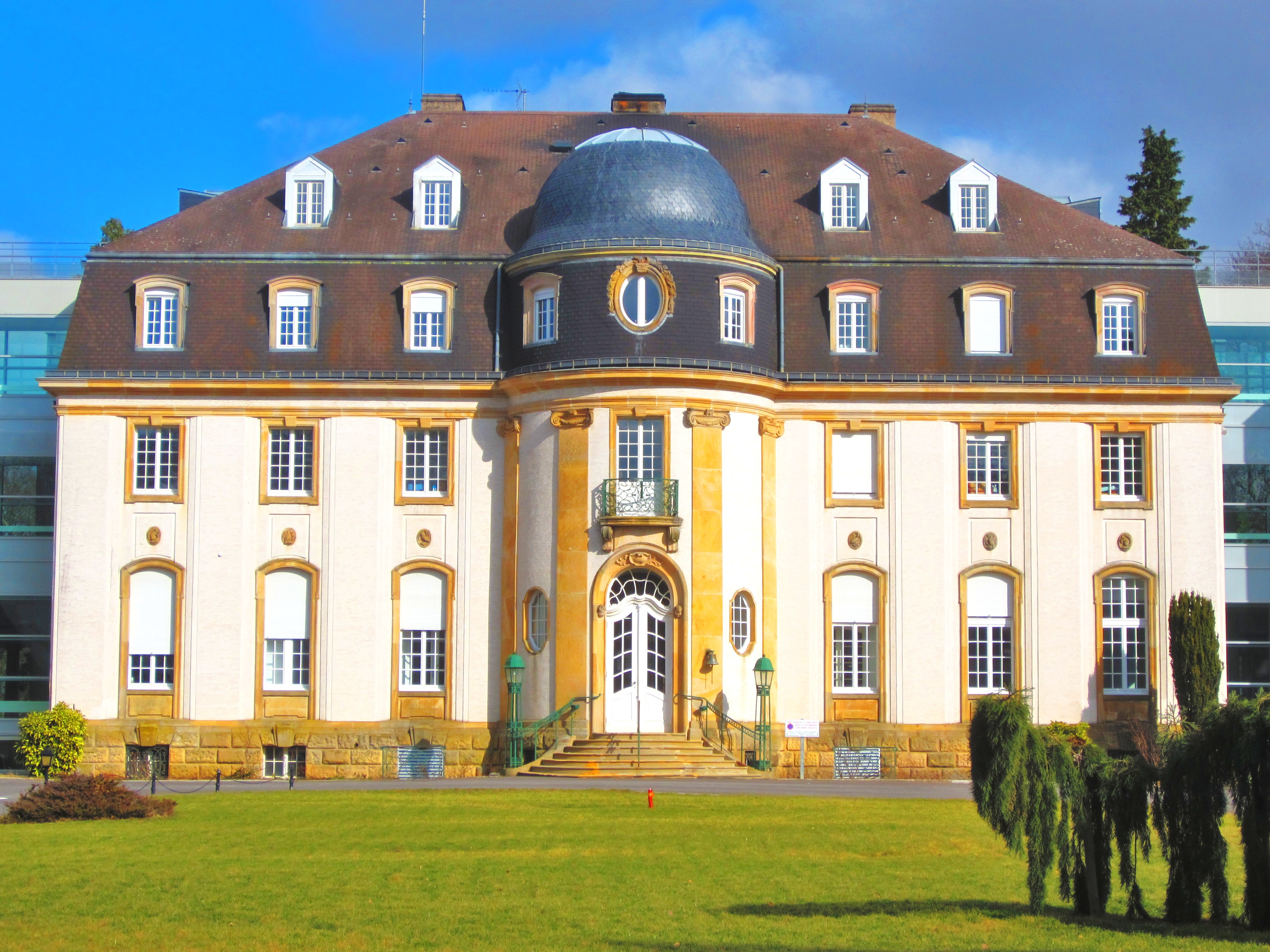 Rexroth castle Charleville Bois